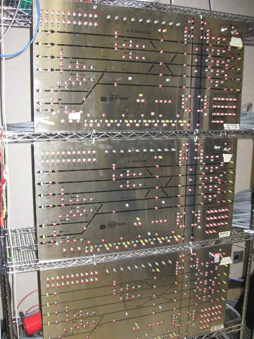 Brighton Park Panel Mock Up